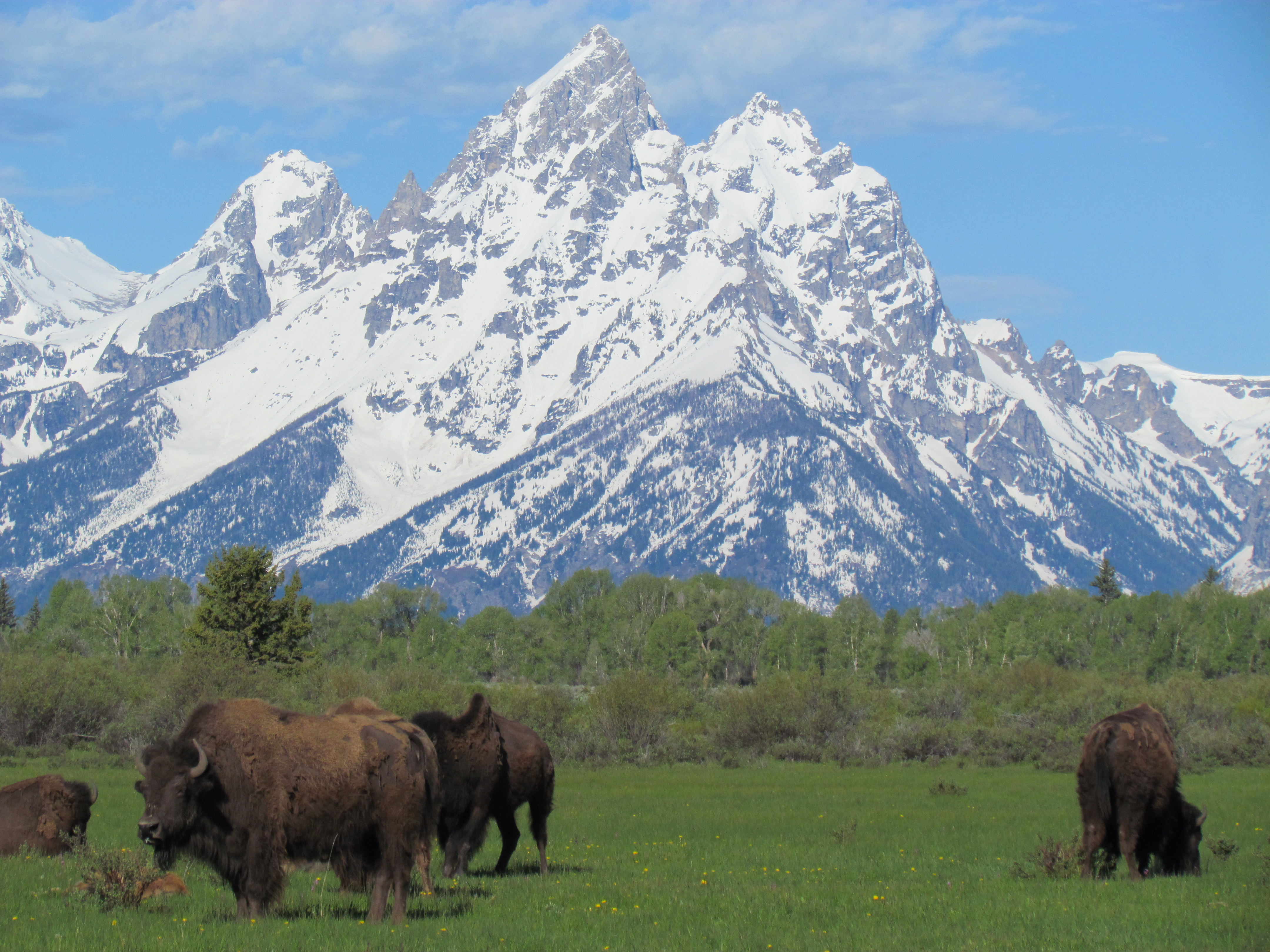 Bison grazing in front the Grand Tetons